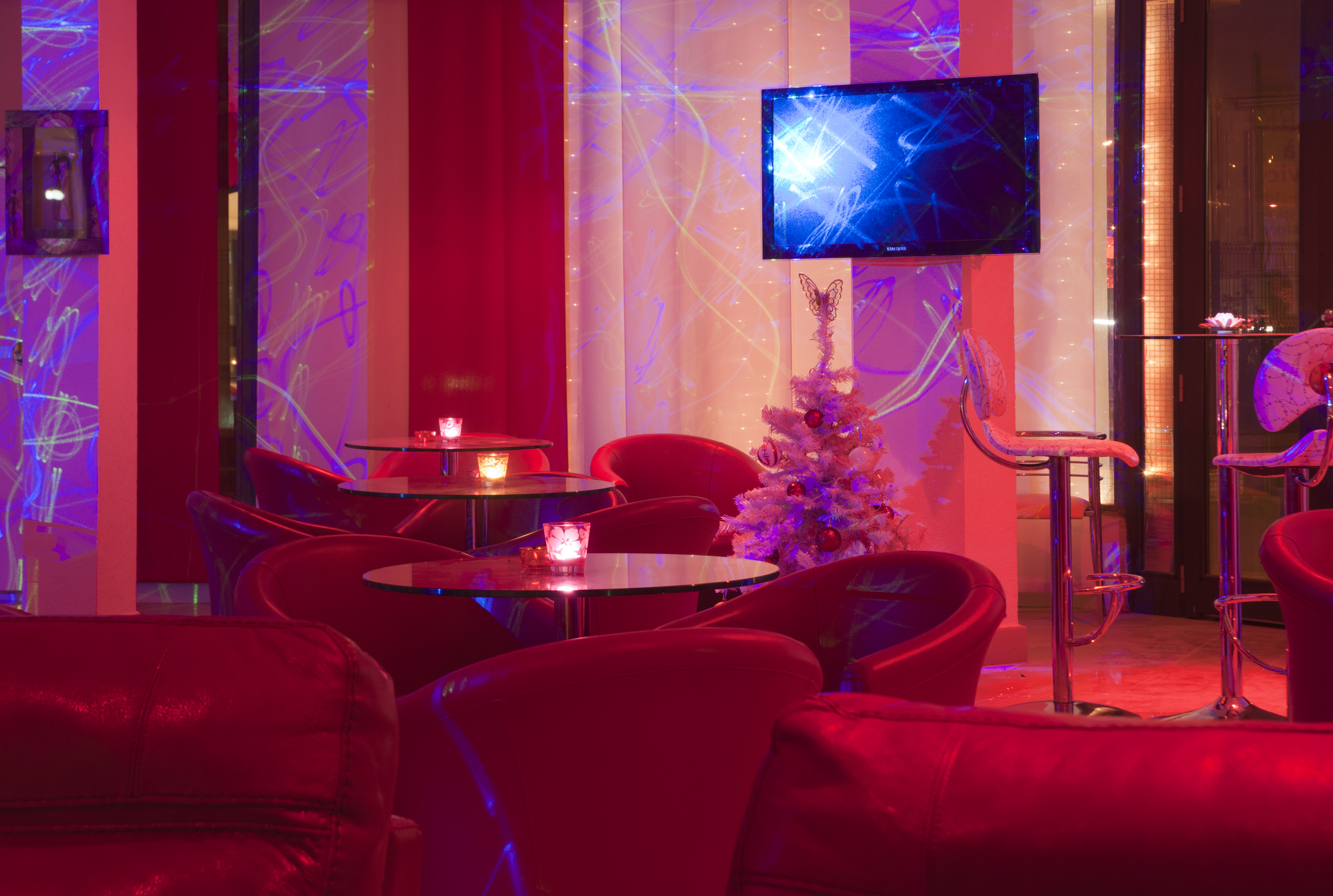 Lounge bar in Ouagadougou